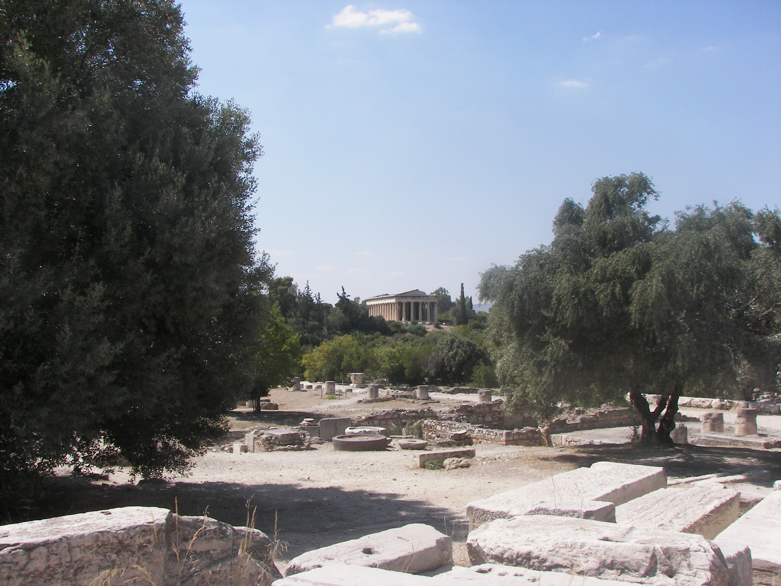 Athens, Agora